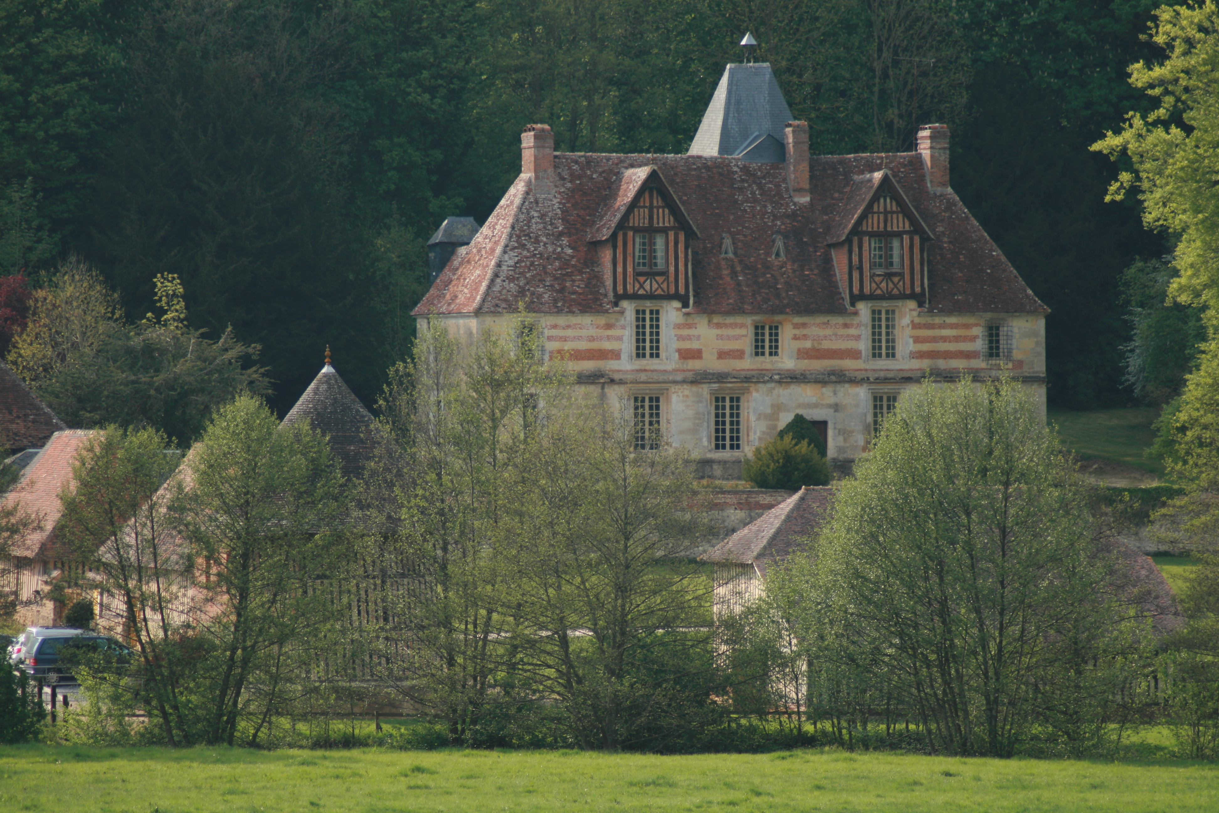 Saint Hippolyte Manor (Saint-Martin-de-La-Lieue, 14100).